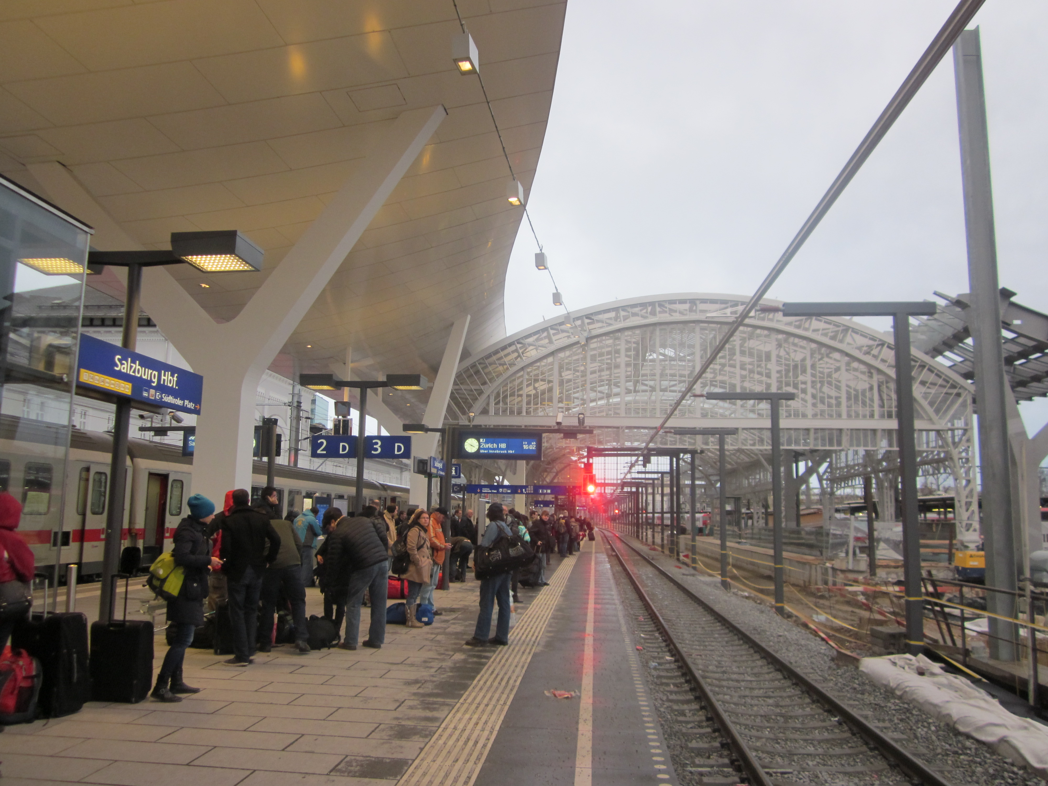 Salzburg Central Station